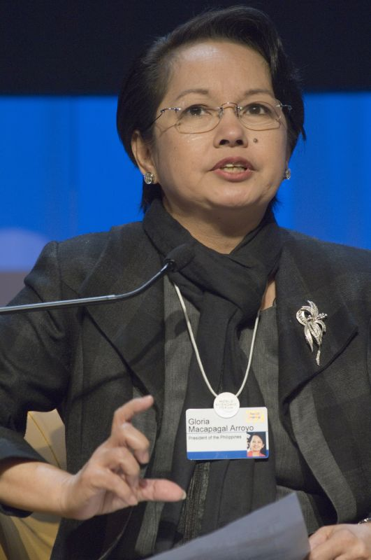 Gloria Macapagal Arroyo, President of the Philippines (captured during the session 'ASEAN's 40 Years - A New Future' at the Annual Meeting 2007 of the World Economic Forum in Davos, Switzerland, January 26, 2007). Copyright by World Economic Forum by Gian Vaitl